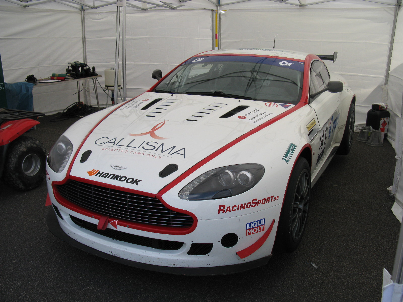 Aston Martin V8 GT4